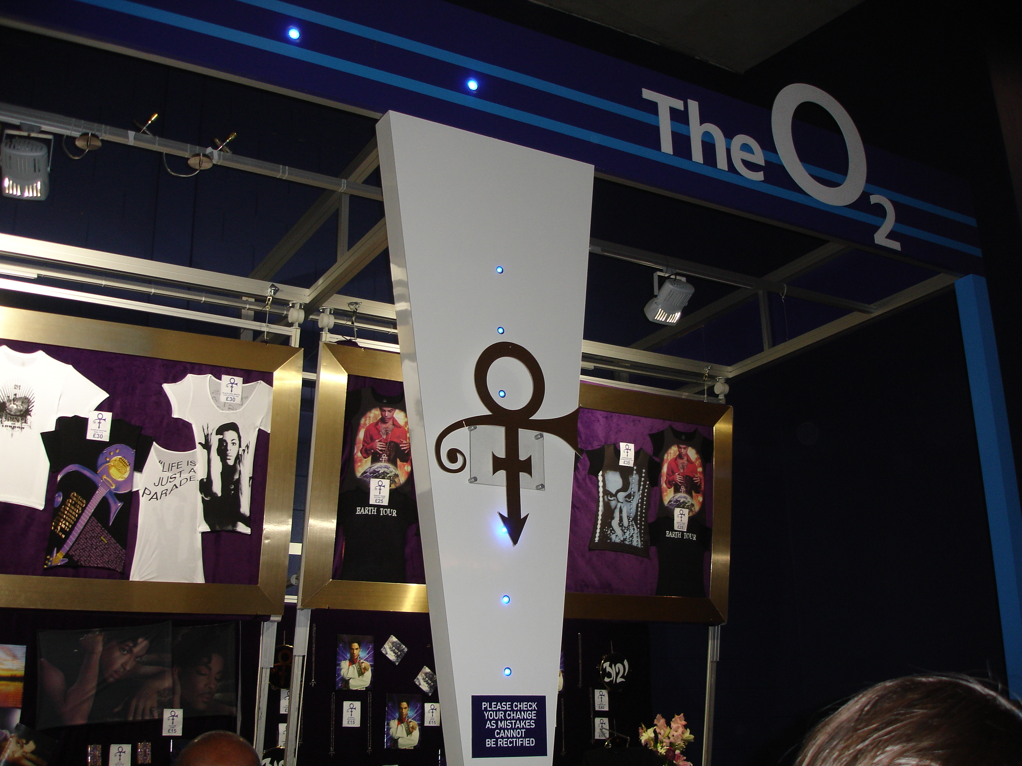 Prince merchadising store, Earth Tour (21 nights in London 2007), O2, London (UK)